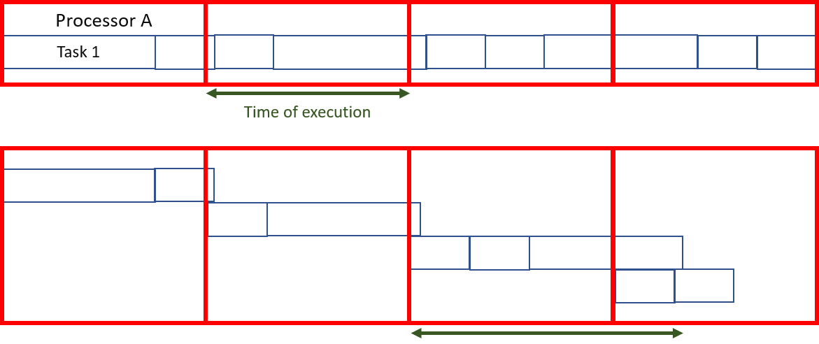 It appears that the task assignation is more equal when tasks are divisible.